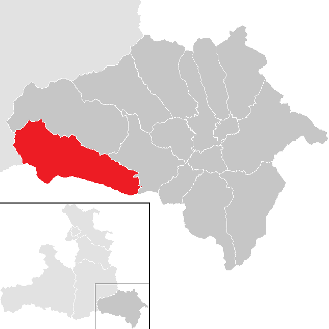 District Tamsweg